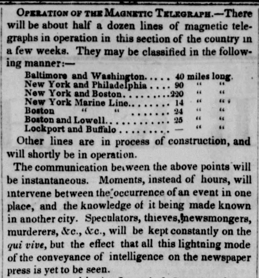 Article in New York Herald, November 14, 1845 about telegraph lines soon to be in operation.